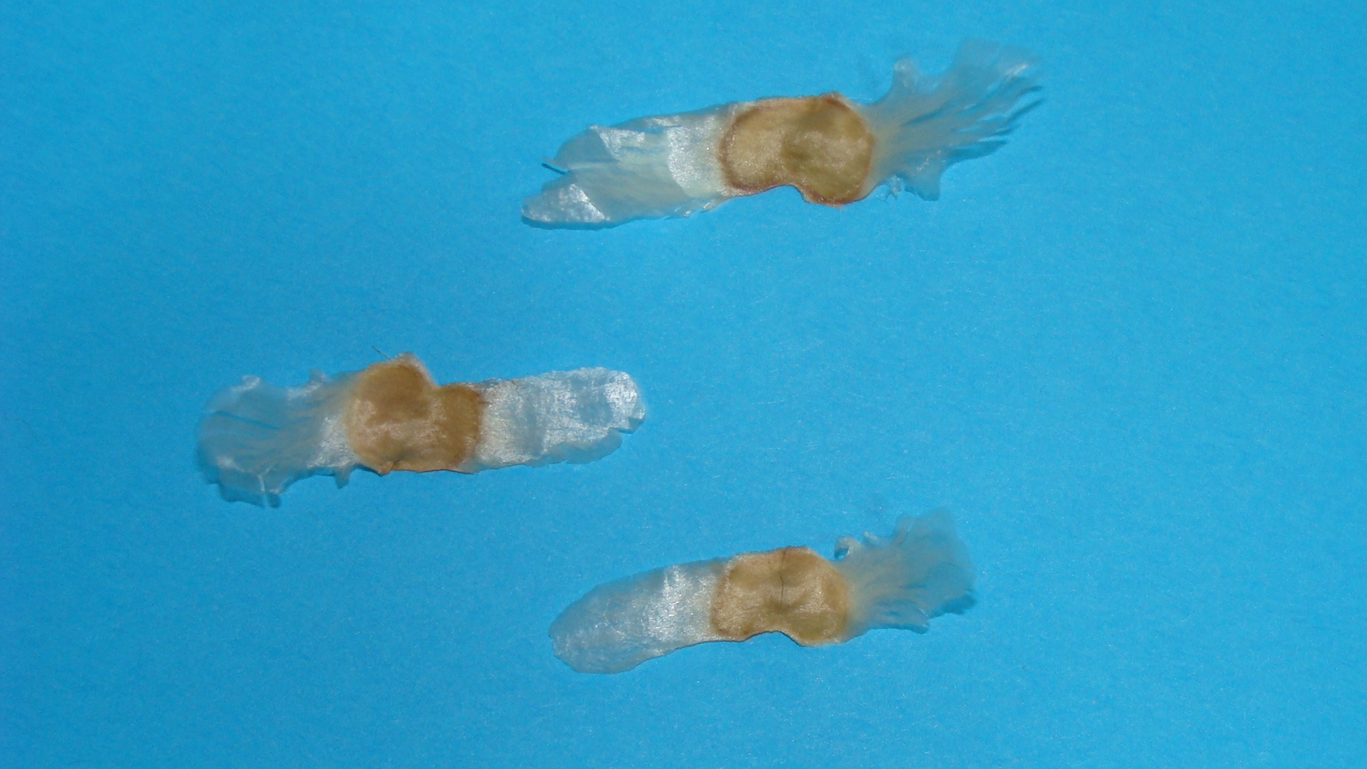 Seeds from Tabebuia rosea about 2–3 cm long